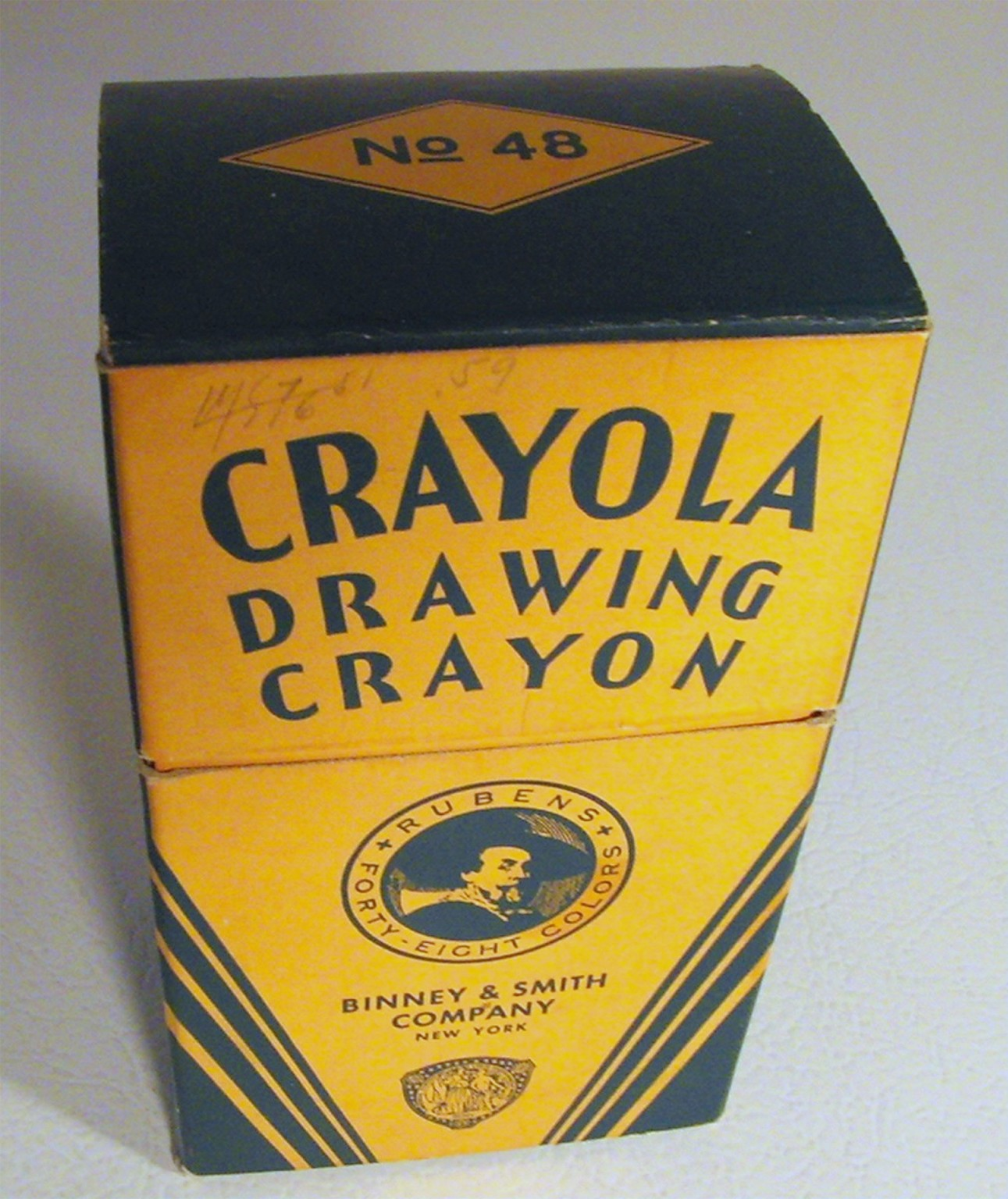 The first version of the Crayola No.48 box